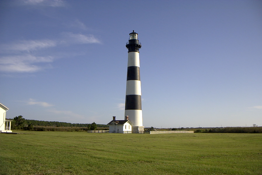 Outer Banks, North Carolina. Bodie Island Lighthouse.